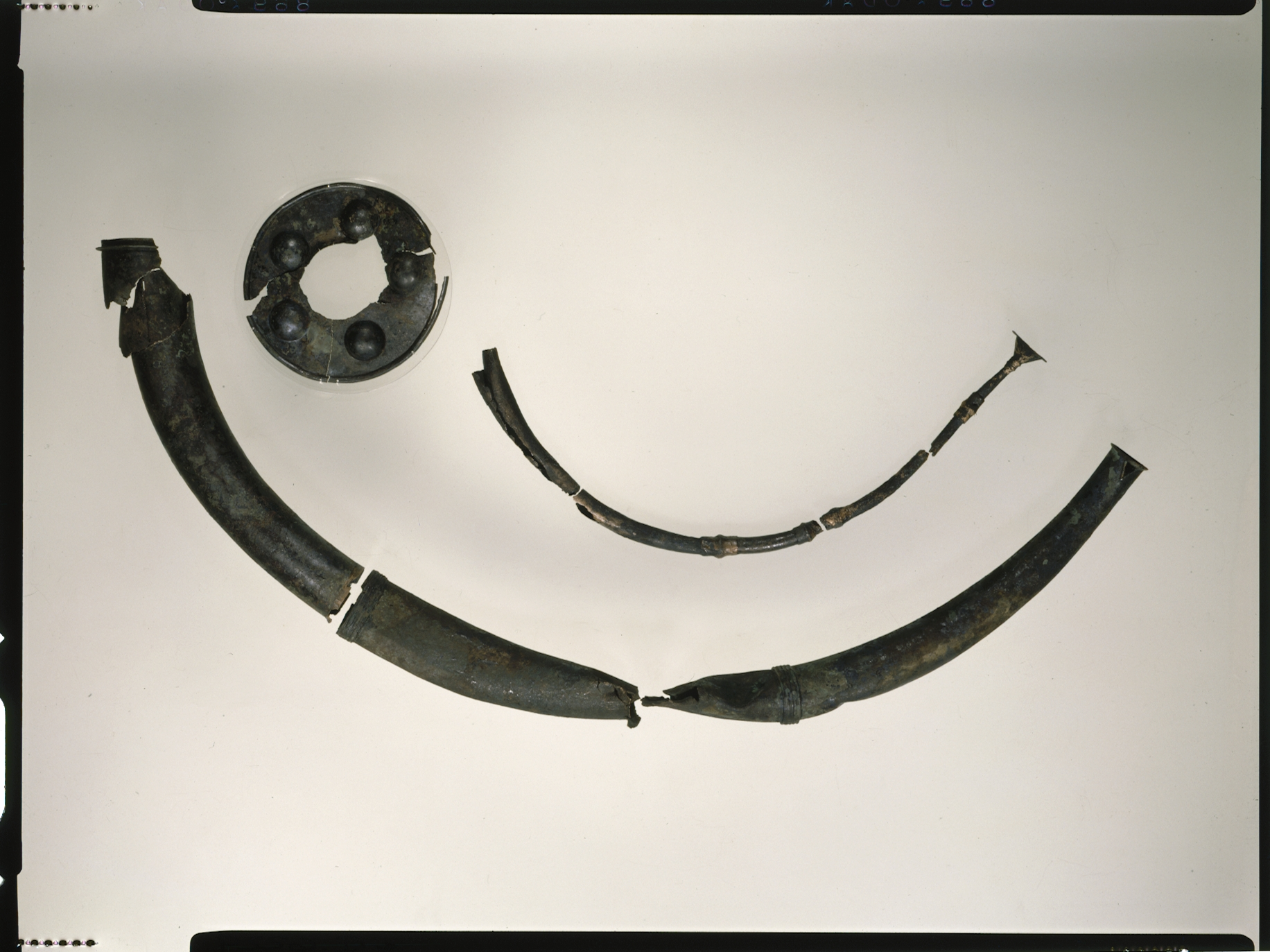 Lur from Ulvkær, Horne sogn, Denmark (B17482)